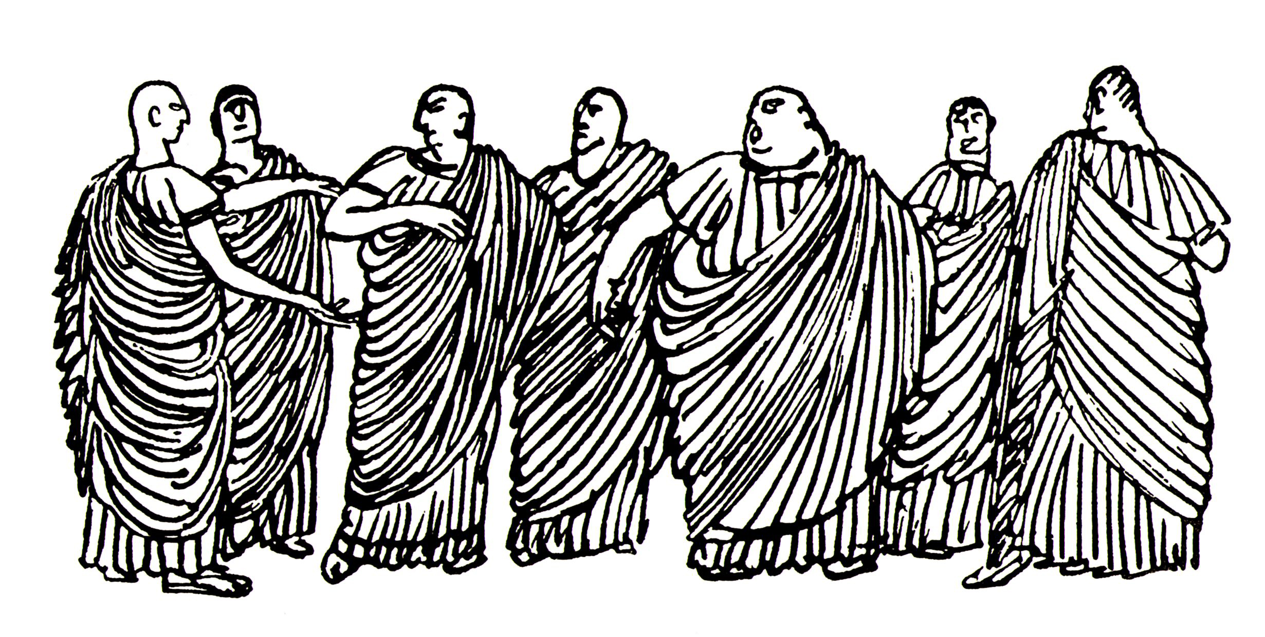 The illustration for the humorous book The General History Edited by Satyricon.